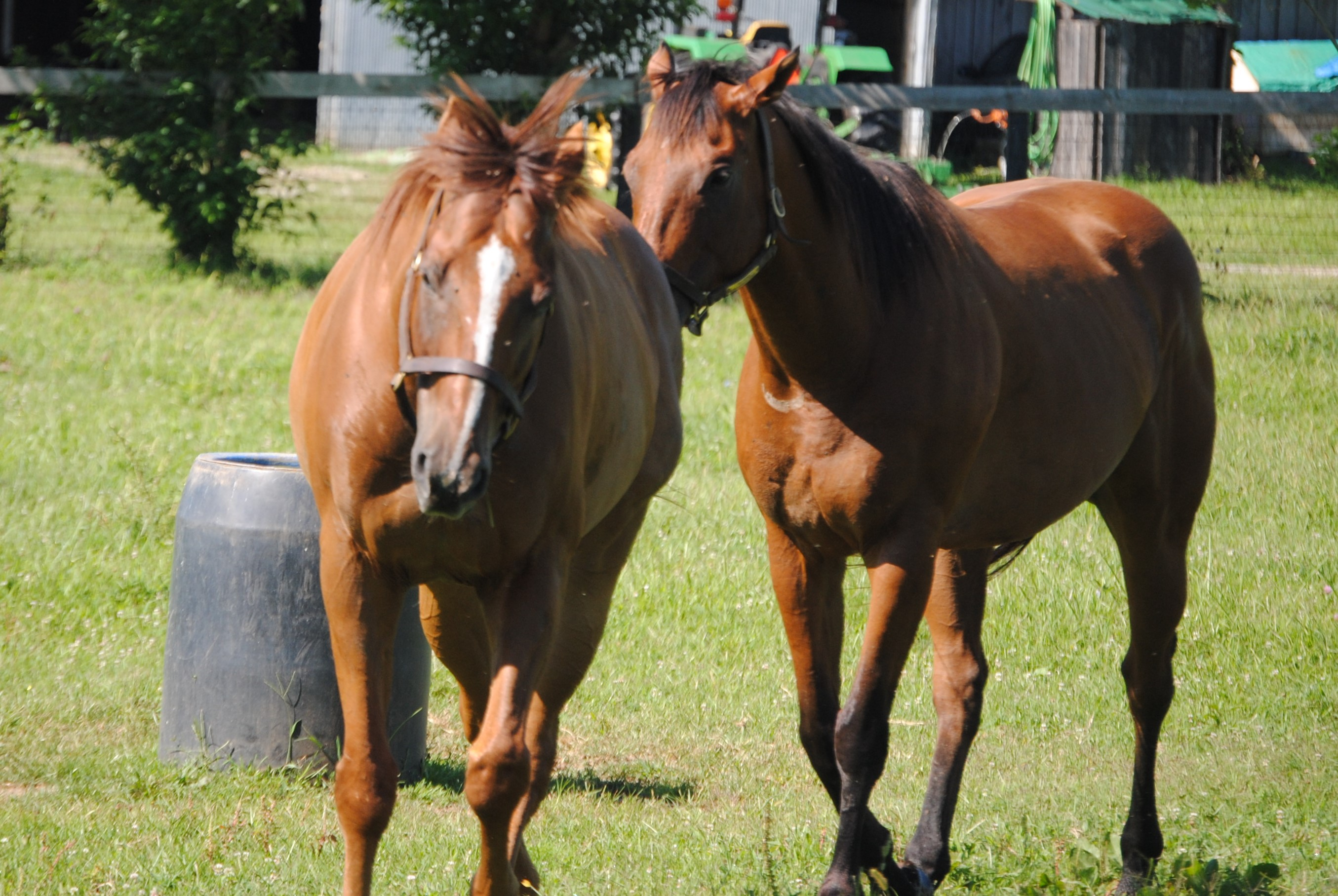 Rapid Redux (left) with Rail Trip, at Old Friends Equine in 2015